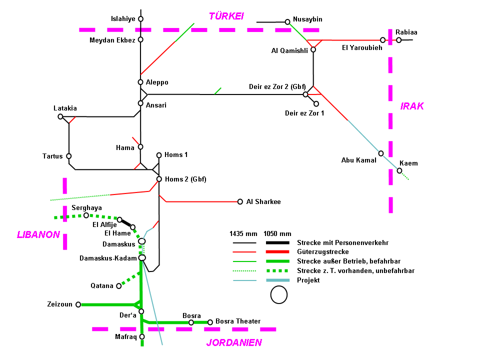 Sketch of railwaylines in Syria